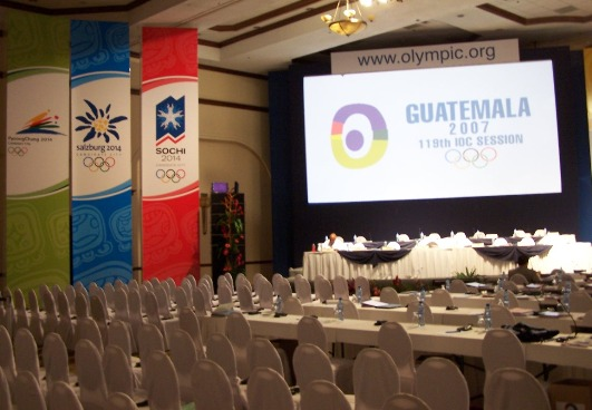 The IOC Session hall at the Westin Camino Real, Guatemala City. (ATR)